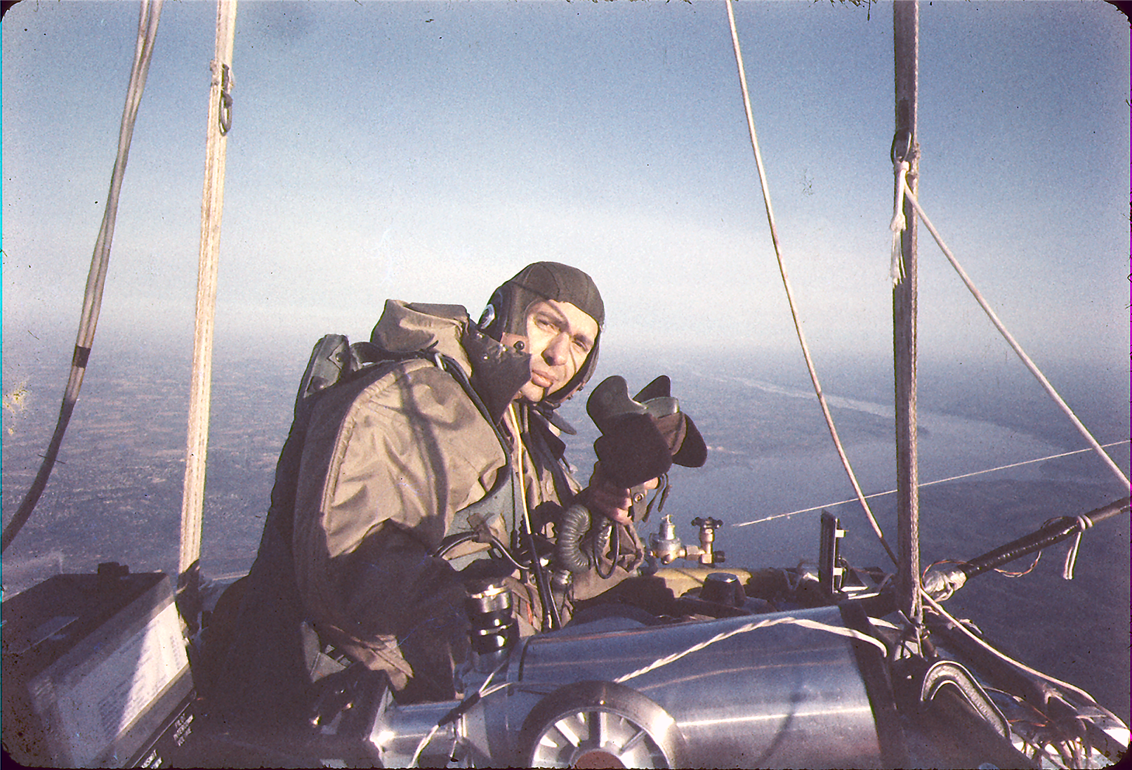 American balloonist Malcolm Ross looking for suitable landing site from 10,000 feet above the Mississippi River, after descending from astronomical observations in the stratosphere. Camera: Leica M2 winterized by National Geographic Society for Arctic Conditions (-60 deg C in the Stratosphere). Lens: 50 mm f1.4. Film: Kodachrome. Location: Mississippi River, South of Minneapolis MN, USA